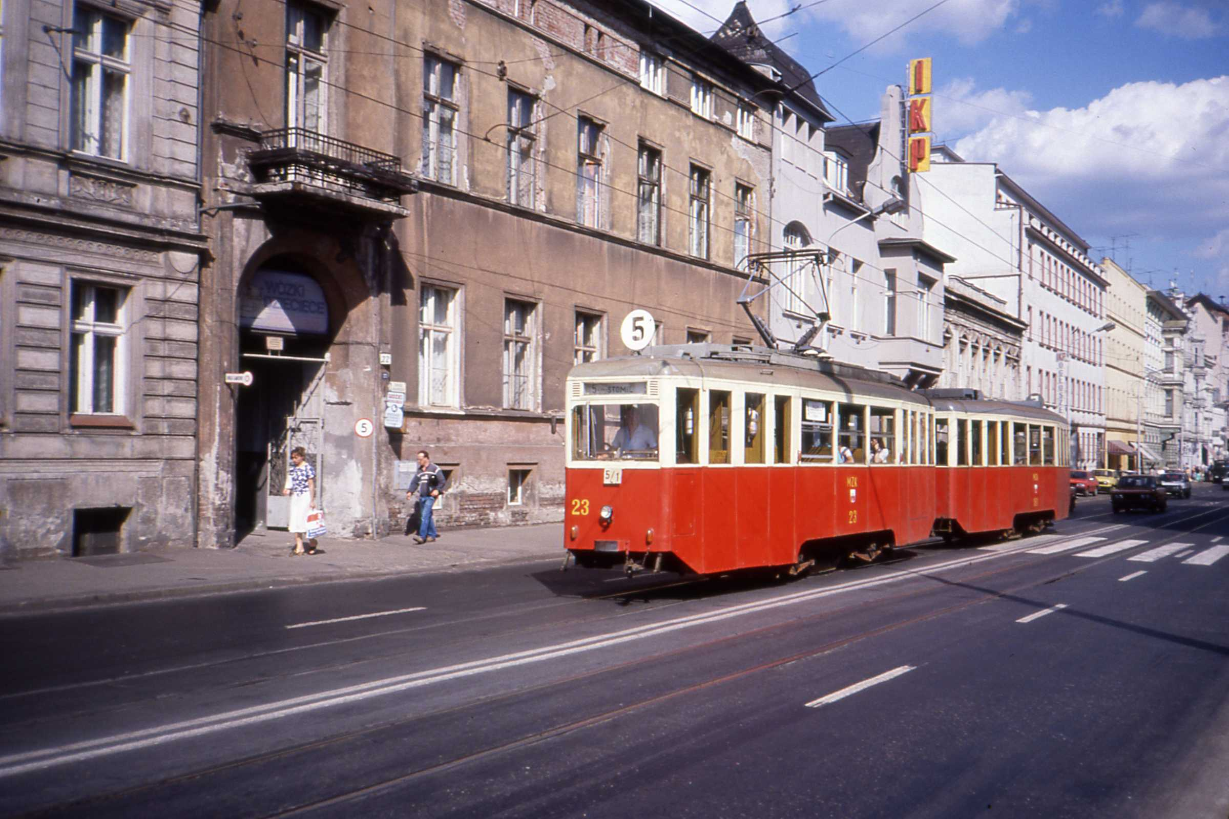 A few old N cars were still running in Bydgoszcz - about 13 in total, with a similar number of trailes. Route no 5 to Stomil is no longer Running, but this terminus is served by the 4. The Number 5 route from Babia Wieś to Stomil ceased in 1991. For a list of routes, see here All details of the Bydgoszcz tram system are in this WIKIPEDIA PAGE